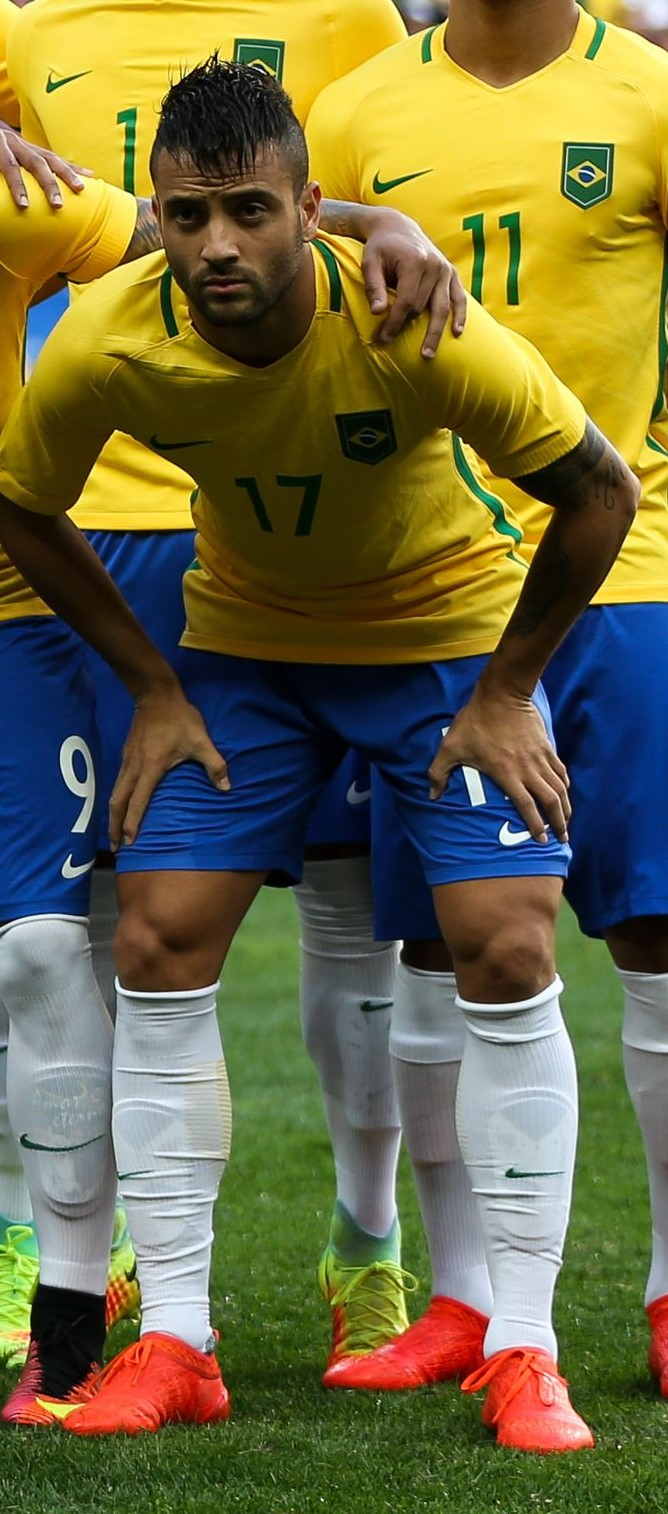 Brasília - Futebol masculino da seleção brasileira, deu o seu pontapé inicial na Olimpíada Rio 2016, em uma partida contra a África do Sul, no Estádio Mané Garrincha (Marcelo Camargo/Agência Brasil)